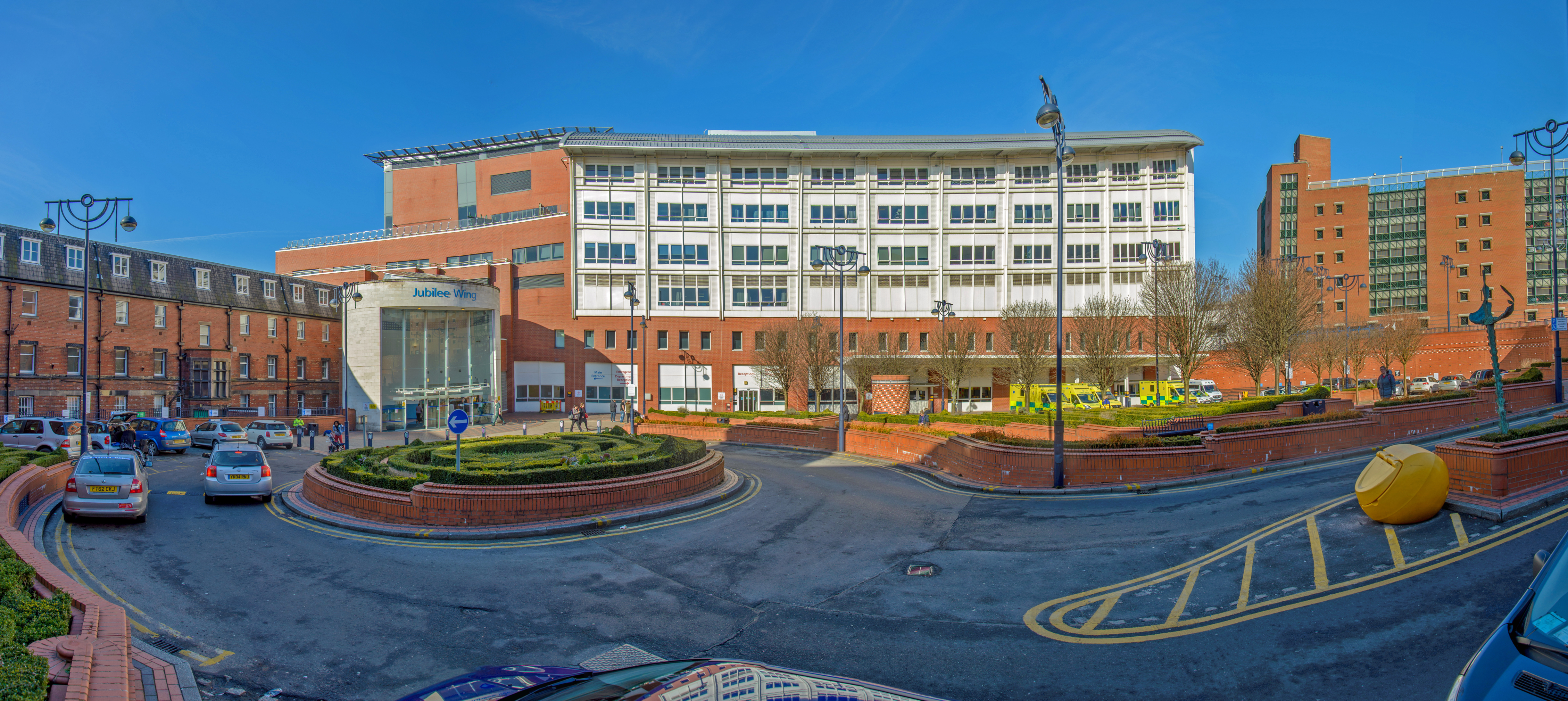 Panoramic view of LGI